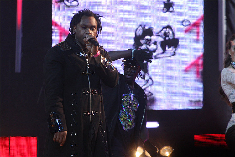 Dr. Alban in Moscow